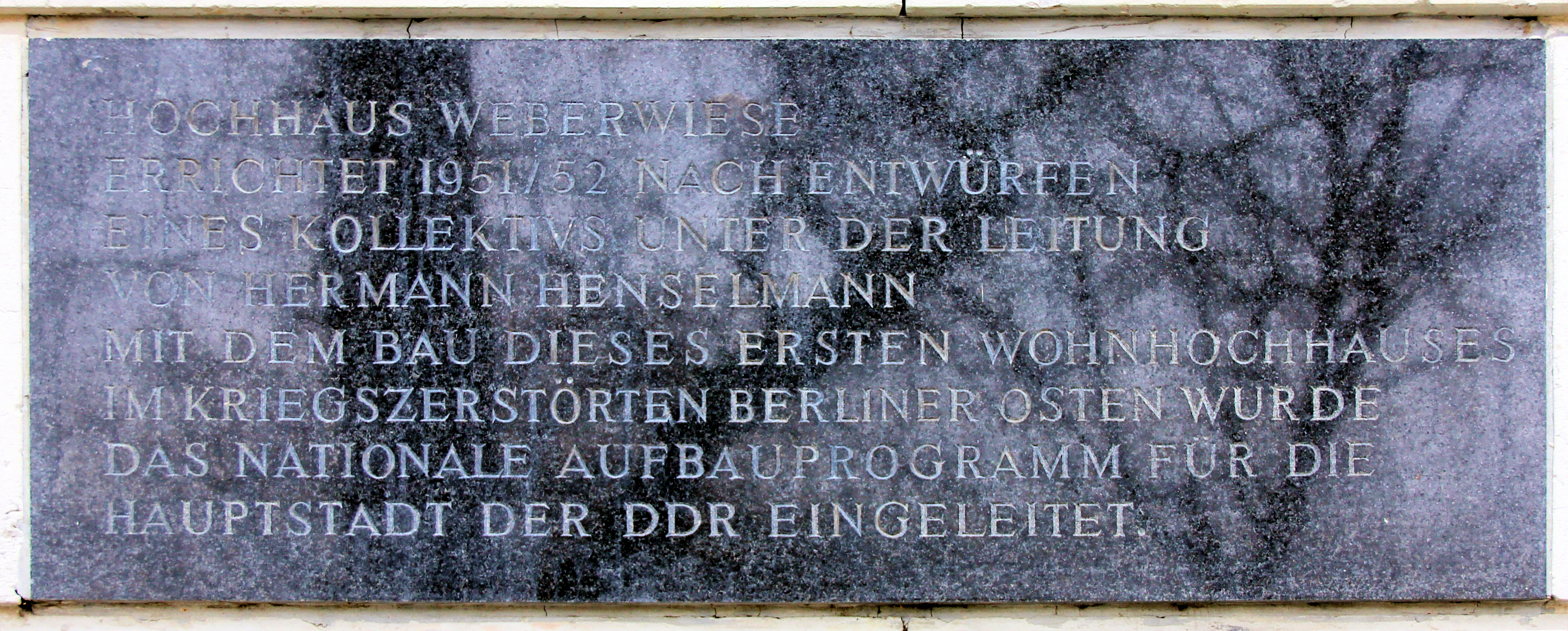 Memorial plaque, Hermann Henselmann, Marchlewskistraße 25a, Berlin-Friedrichshain, Germany